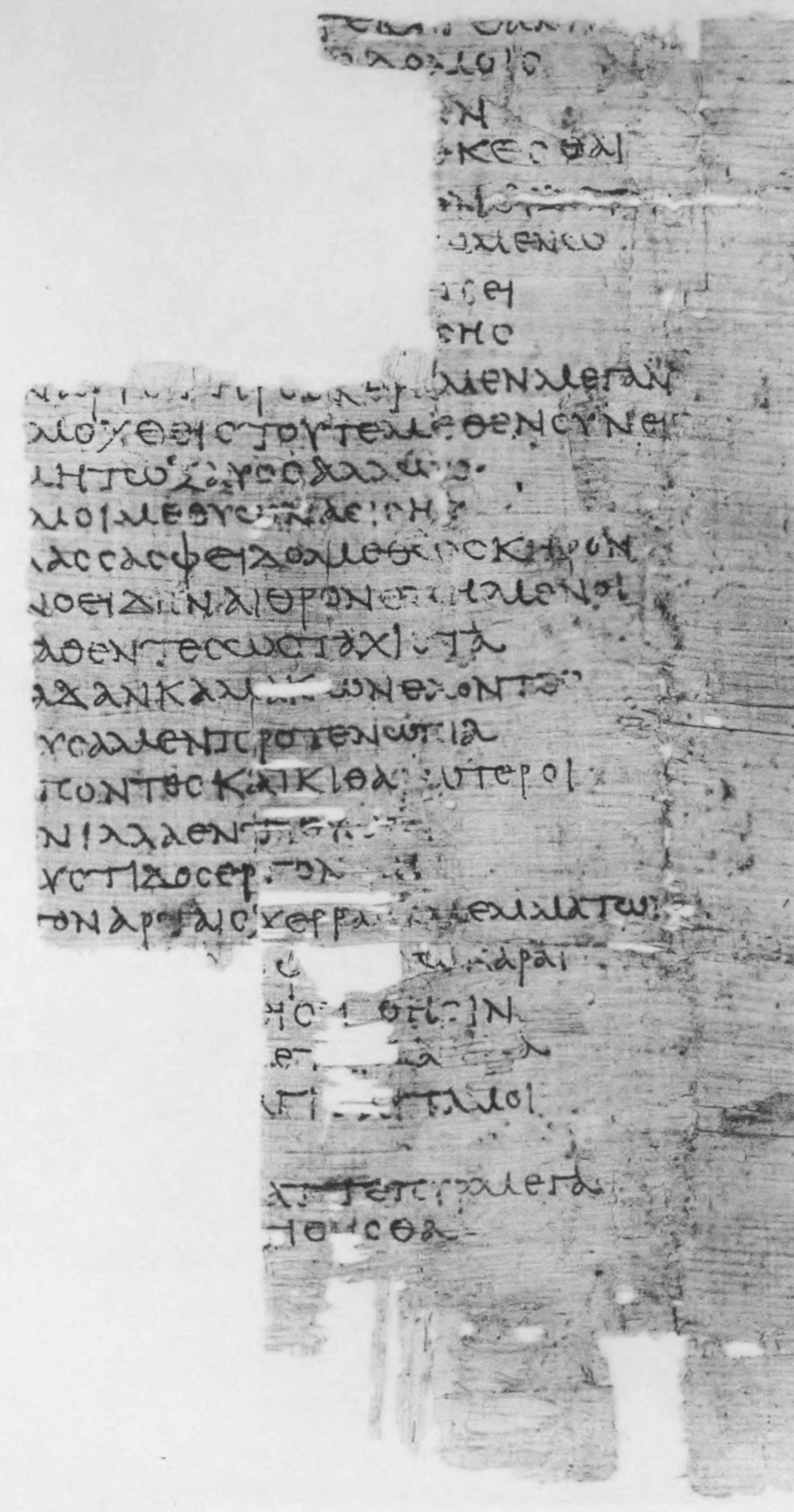 P.Berol. inv. 1810: Alcaeus